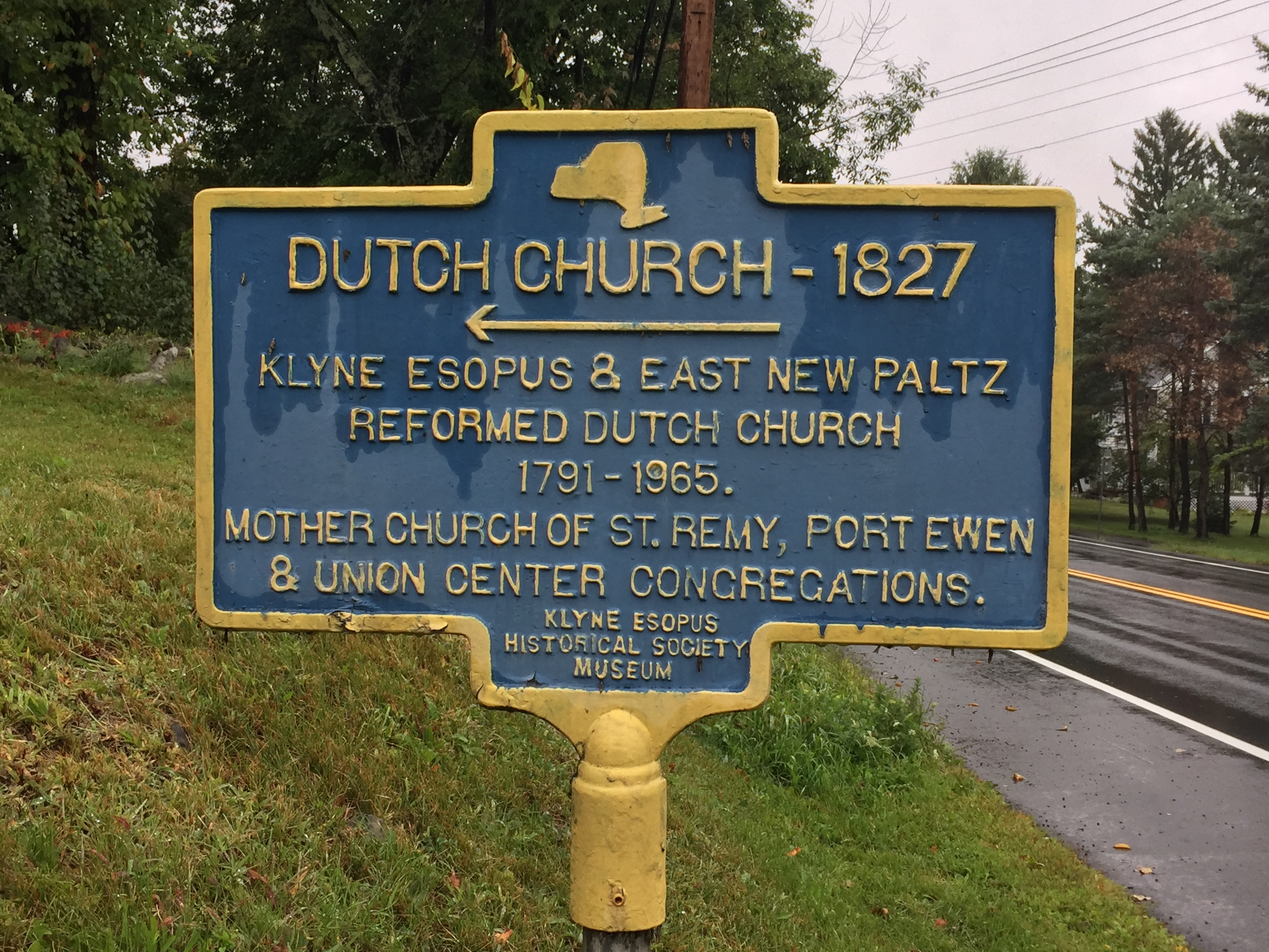 New York State historical marker for and old Dutch Church